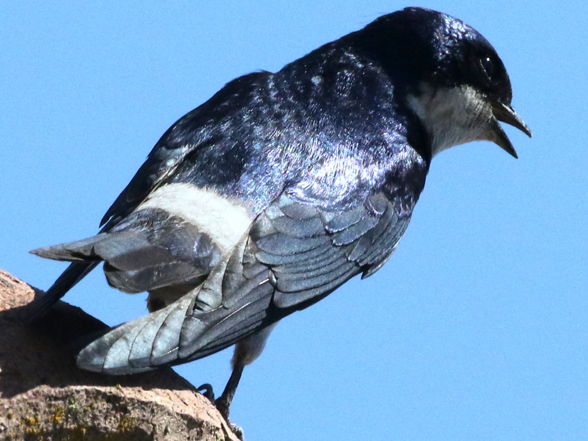 Chilean swallow at Viña Santa Rita, Chile